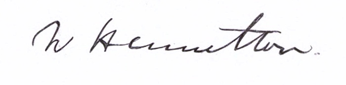 Illustration from book in the public domain.